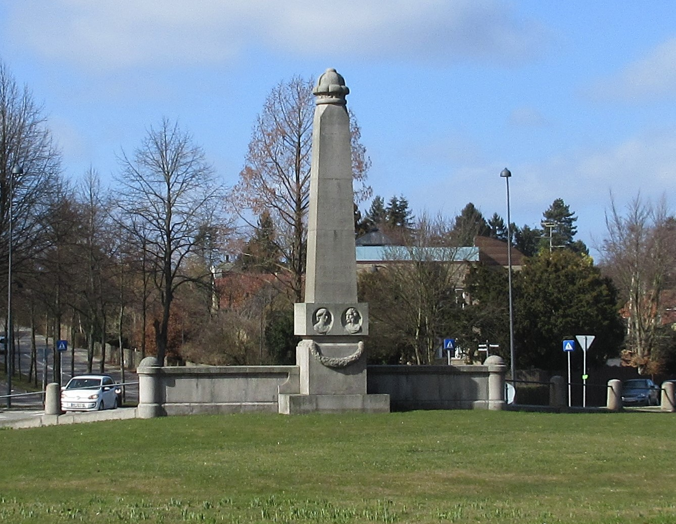 Femvejsmonumentet at Femvejen in Gentofte Municipality, Denmark